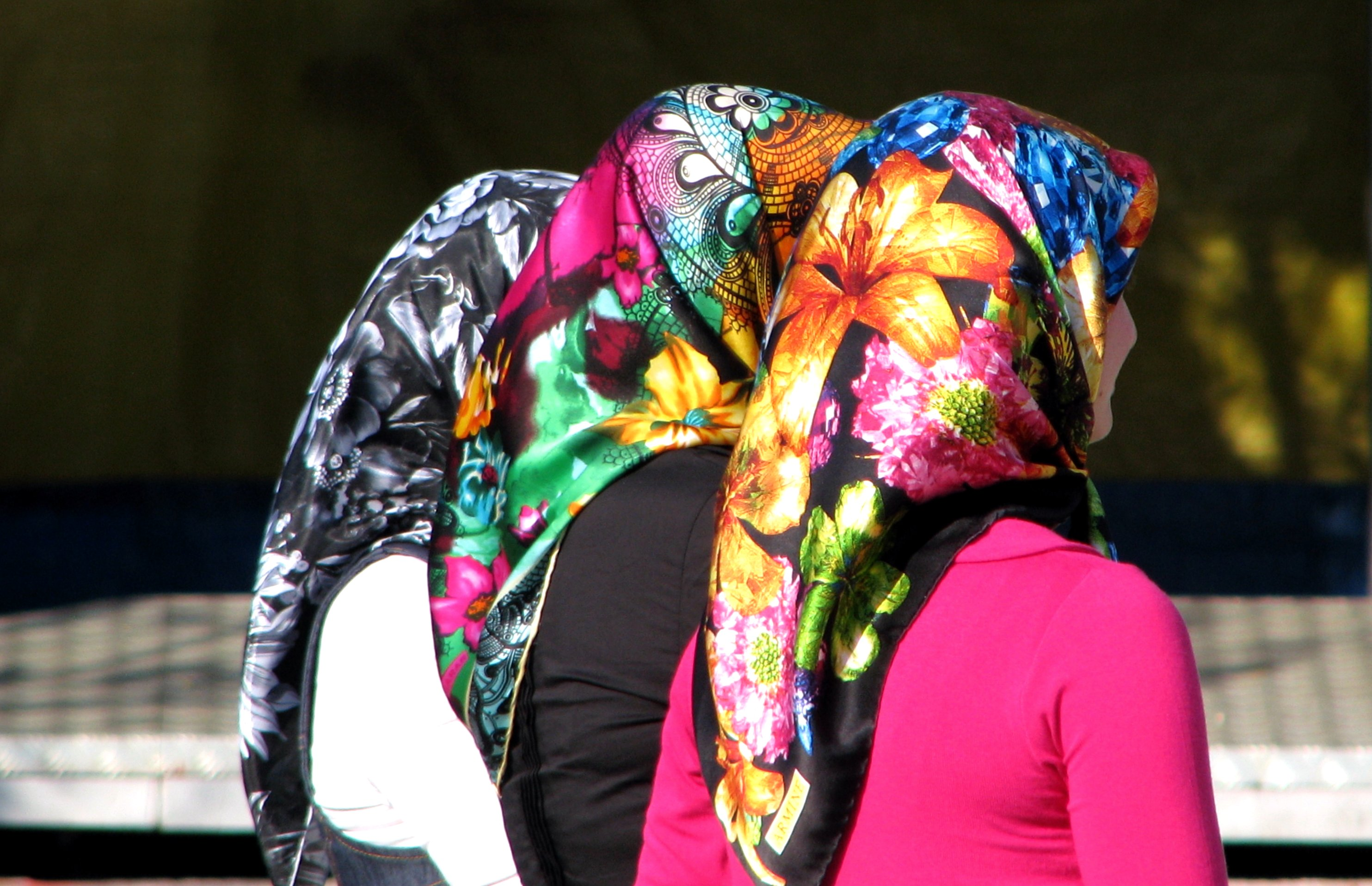 headscarf ladies in Alanya